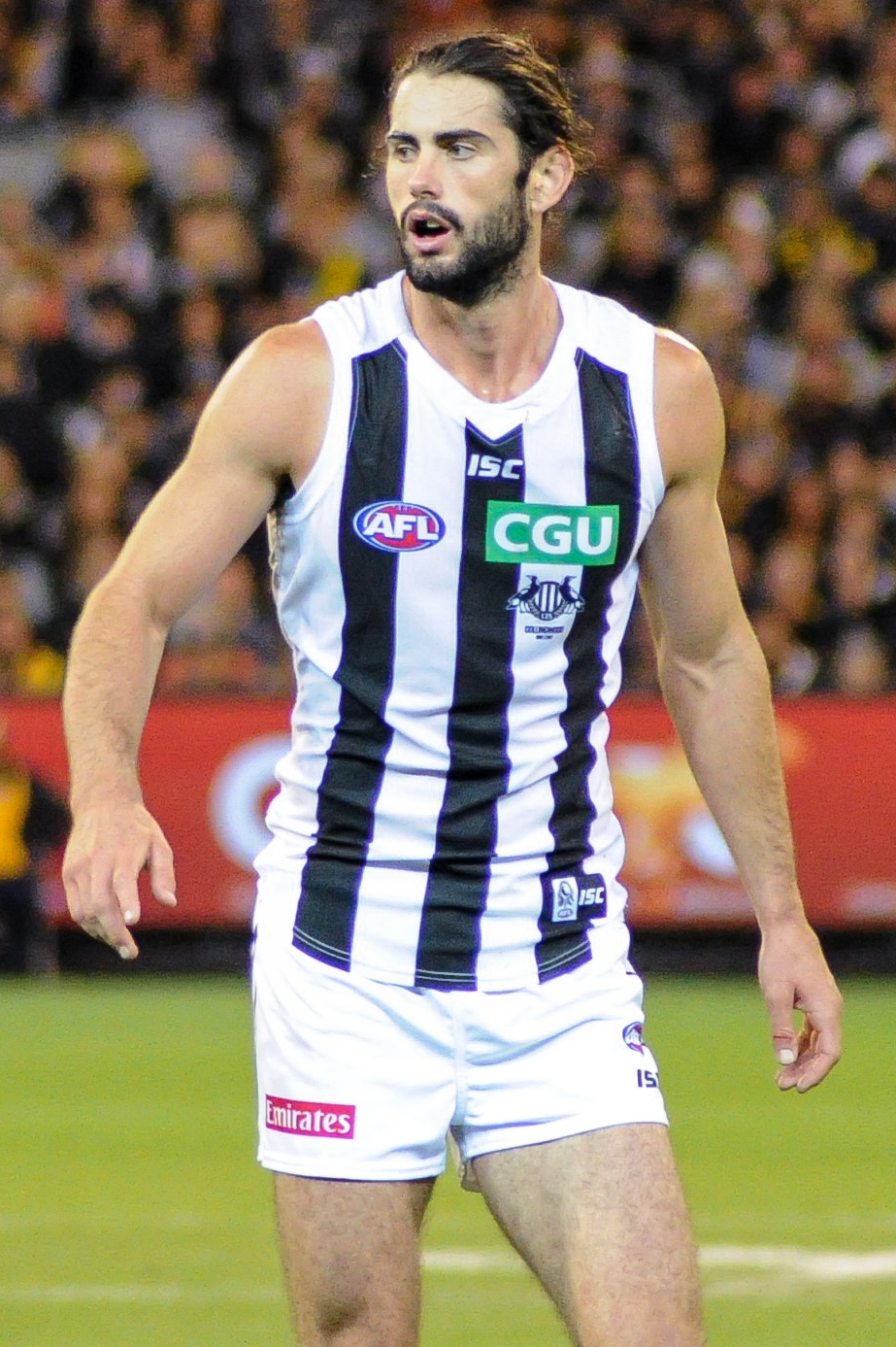 Brodie Grundy during the AFL round two match between Richmond and Collingwood on 30 March 2017 at the Melbourne Cricket Ground in Melbourne, Victoria.